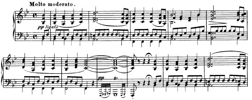 Opening of the sonata in score.